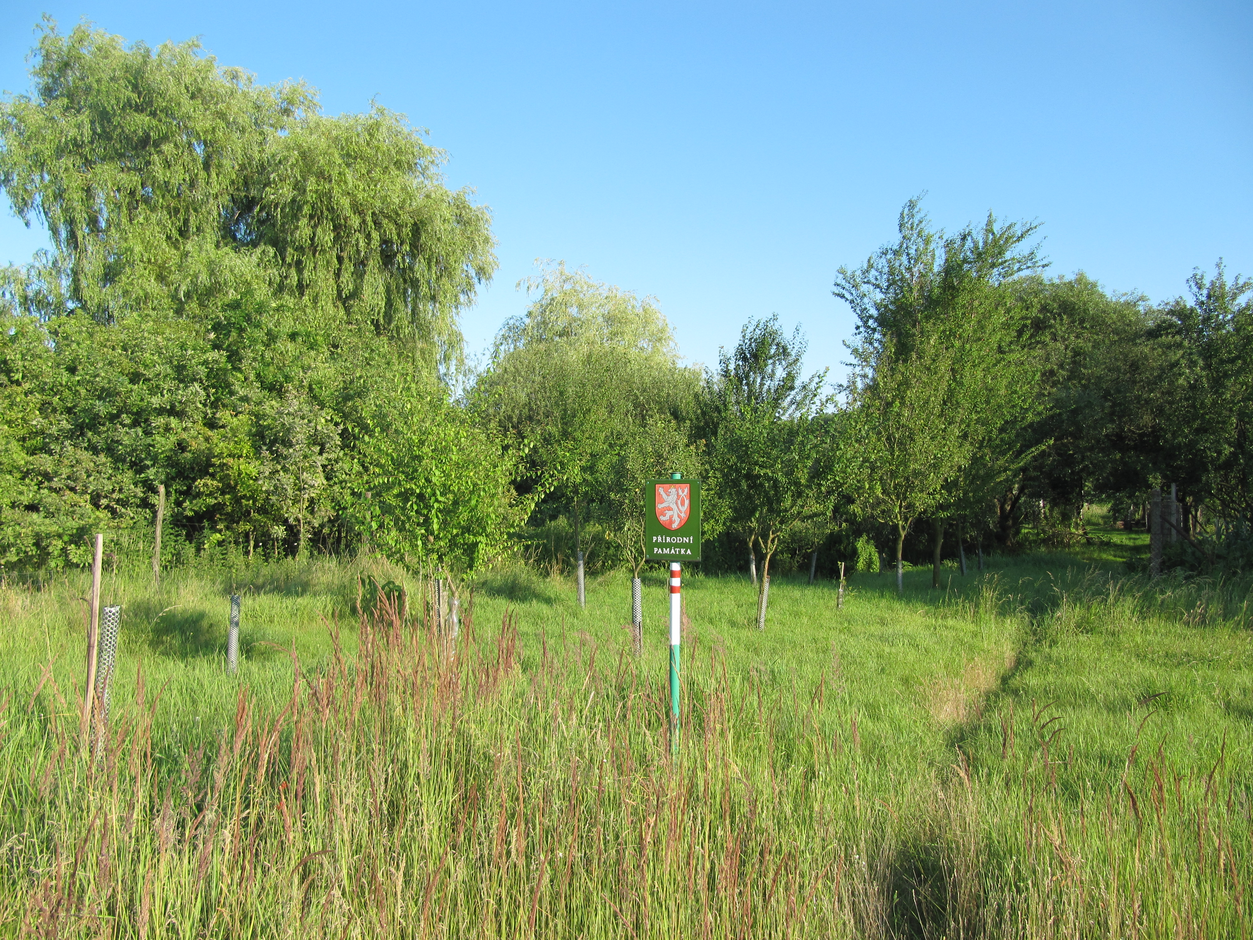 Vacenovice in Hodonín District, Czech Republic. Jezero (nature reserve).